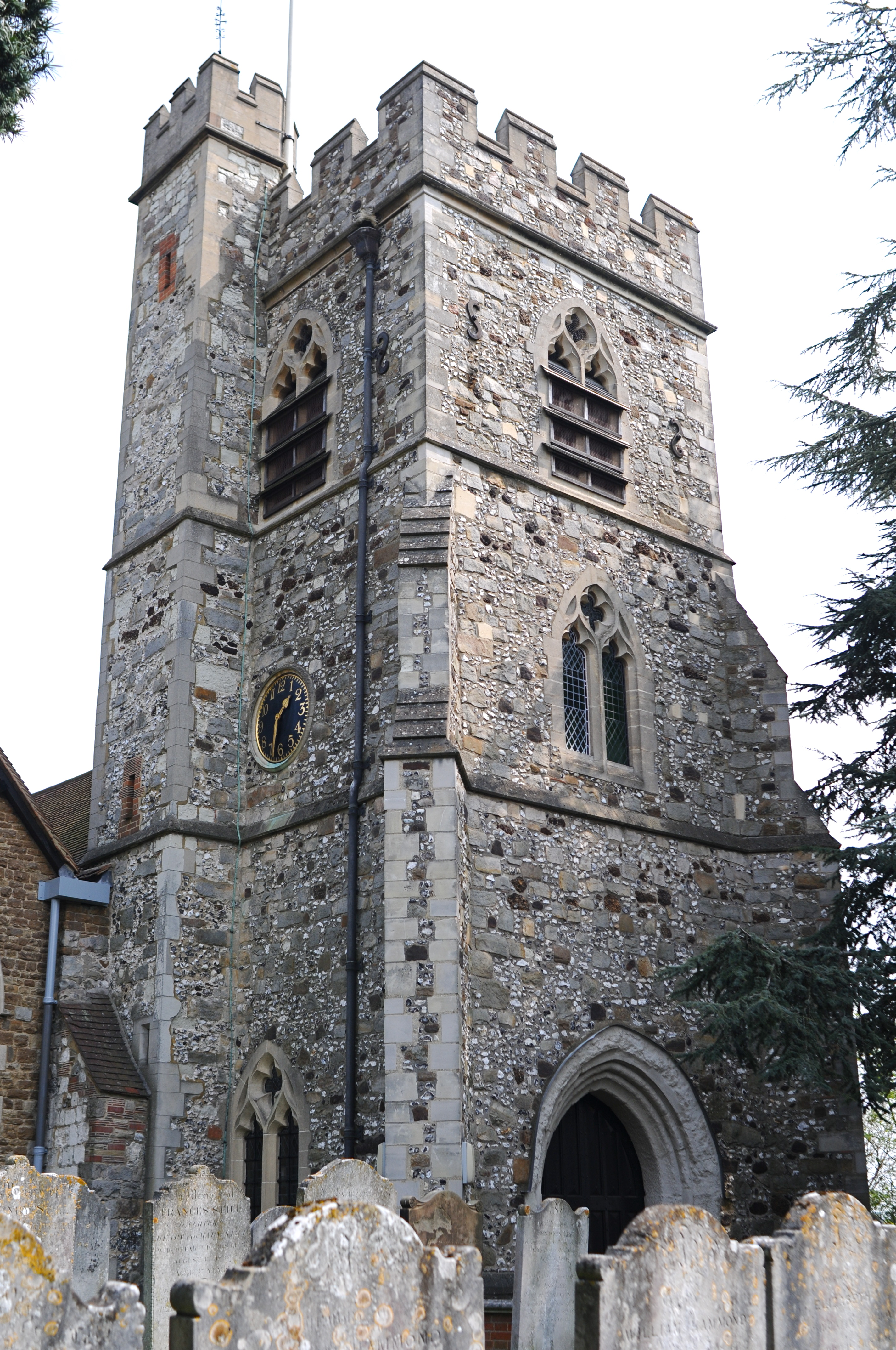 West tower of St Mary the Virgin parish church, Horsell, Surrey, seen from the northwest